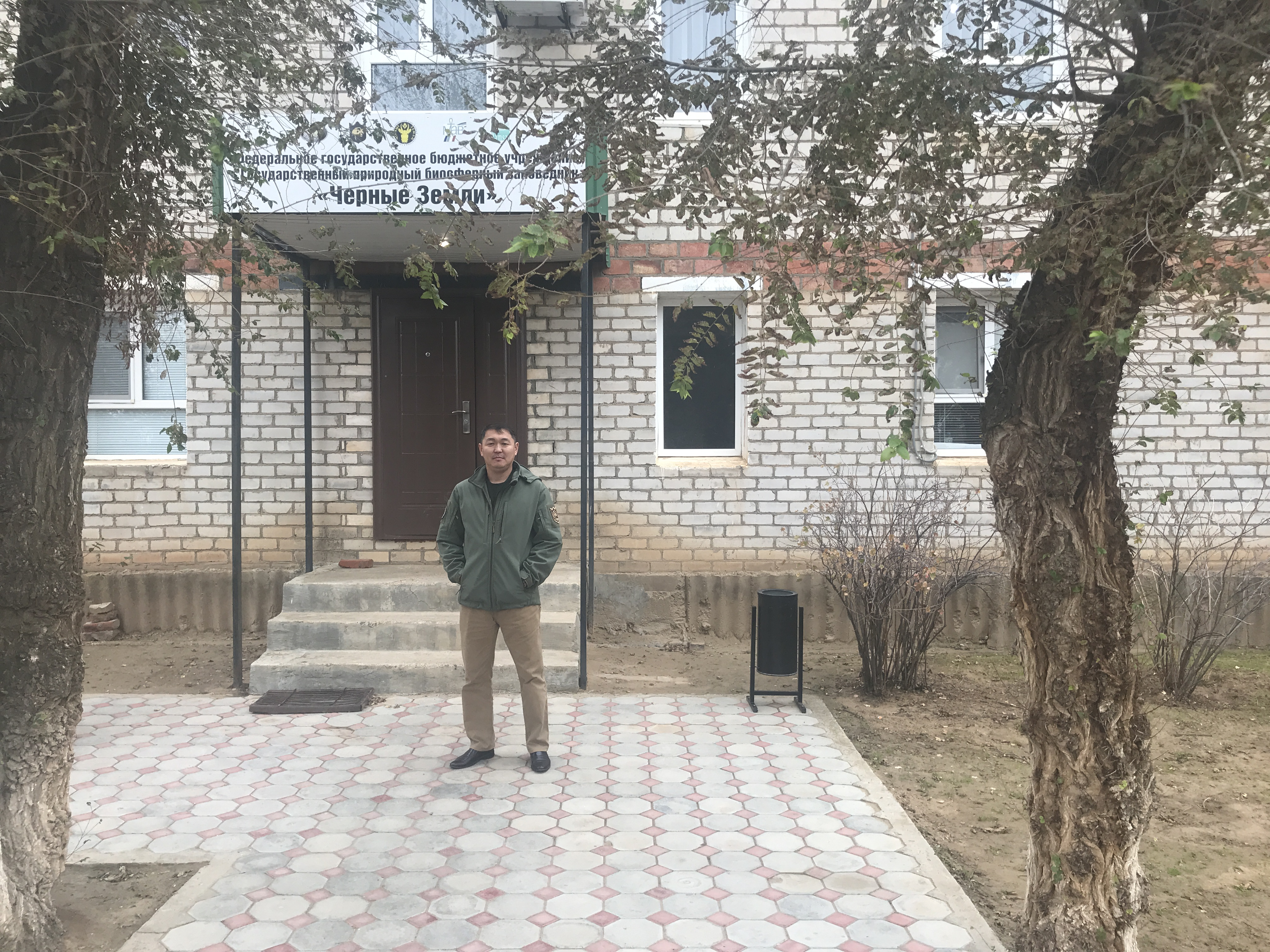 Bataar Ubushaev Director Chyornye Zemli Nature Reserve